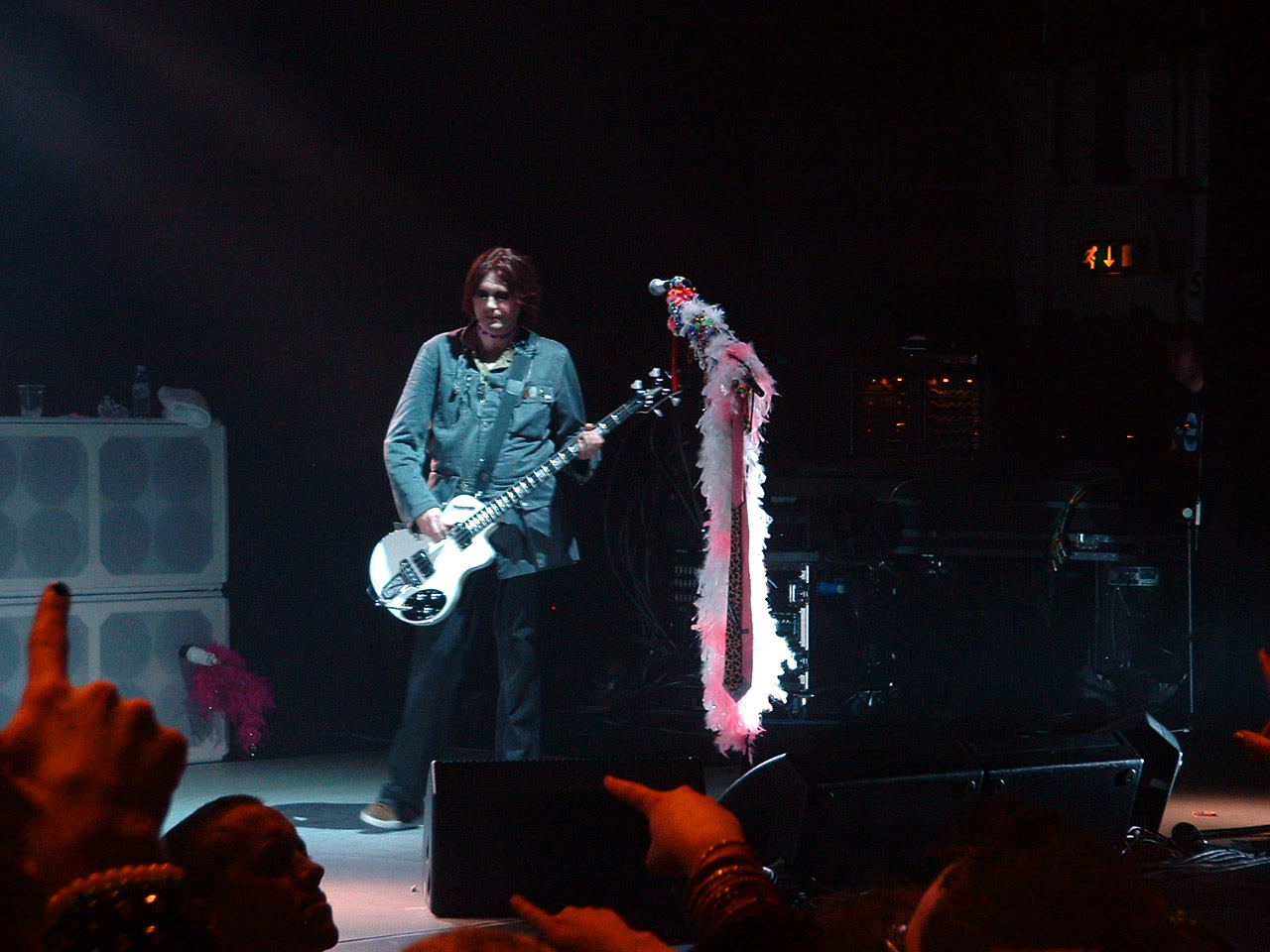 Manic Street Preachers live in London